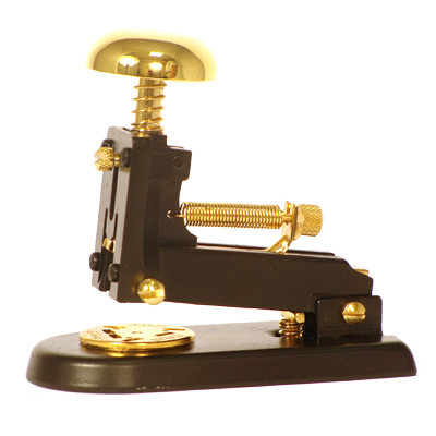 Stapler El Casco